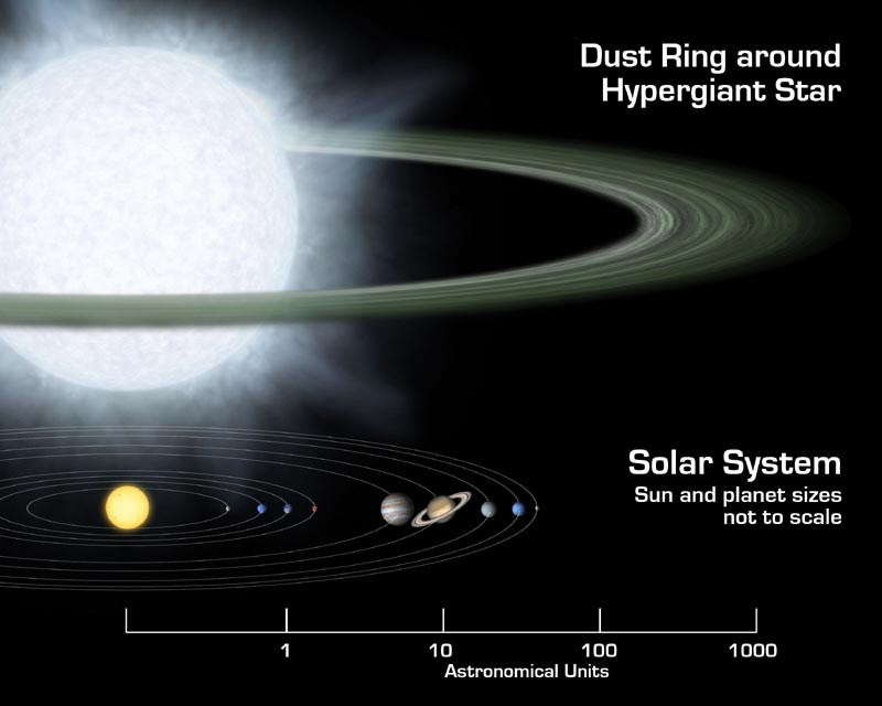 Size of a gargantuan star and its surrounding dusty disk (top) to that of our solar system.